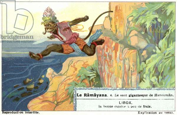 5226281 Scene from the Hindu epic poem the Ramayana: the giant leap of Hanuman to Lanka (chromolitho) by European School, (20th century); Private Collection; ( .: Scene from the Hindu epic poem the Ramayana: the giant leap of Hanuman to Lanka. Liebig card, early 20th century.); © Look and Learn; European, it is possible that some works by this artist may be protected by third party rights in some territories.